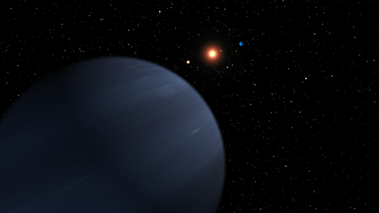 This artist's concept shows four of the five planets that orbit 55 Cancri, a star much like our own. The most recently discovered planet, and the fourth out from the star, looms large in the foreground. It is at least 45 times the mass of Earth, or half the mass of Saturn, and it orbits the star every 260 days. The system's three known inner planets can be seen in the background around the glowing star, while its most distant planet is not pictured. Fifty-five Cancri has produced a larger number of massive planets than our solar system. The colors of the planets in this illustration were chosen to resemble those of our own solar system. Astronomers do not know what the planets look like. The 4th planet is drawn assuming that it may resemble Neptune, though it may be similar to Saturn in its composition and appearance.